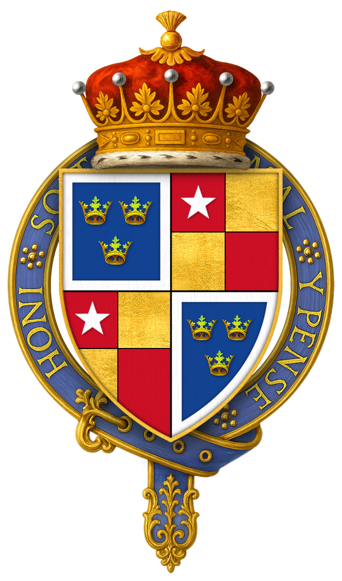 Sir Robert de Vere, 9th Earl of Oxford, KG BELTZ, George Frederick, Memorials of the Order of the Garter from Its Foundation to the Present Time, London: William Pickering, 1841. “ Robert de Vere Marquess of Dublin, Duke of Ireland… Arms: Quarterly, first and fourth, Azure, three crowns Or, a bordure Argent; second and third Vere, quarterly Gules and Or, in the first quarter a mullet Argent. ” FOSTER, Joseph, Some Feudal Coats of Arms from Heraldic Rolls 1298-1418, London; & Oxford: James Parker & Co., 1902. “ Oxford, Earl of, Robert de Vere, 9th, bore, azure, three crowns or, a bordure argent, quarterly with Vere; grant 3 Jan. 1386, pat. I. m. 1 Cotton MS. Julius C. VII fo. 237. ”